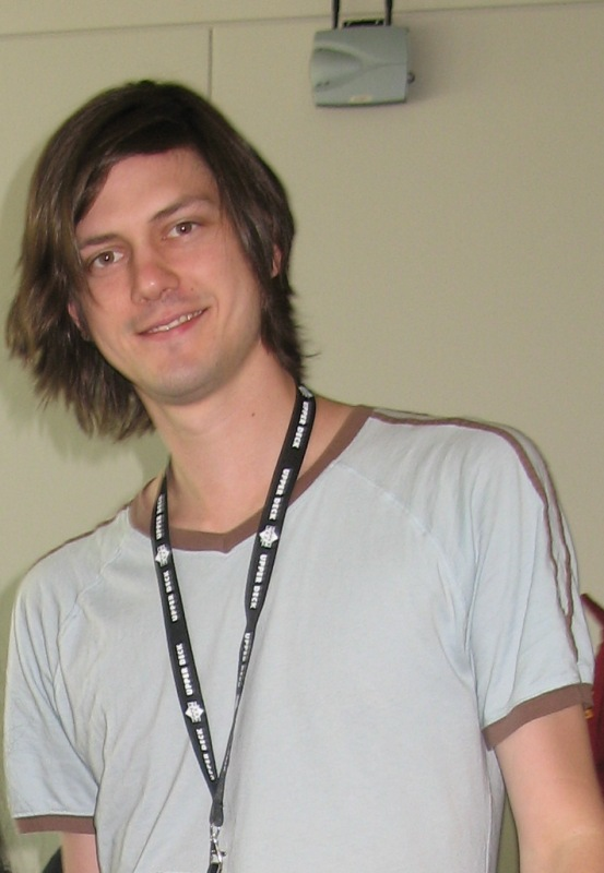 Trevor Moore attending Comic Con 2007.